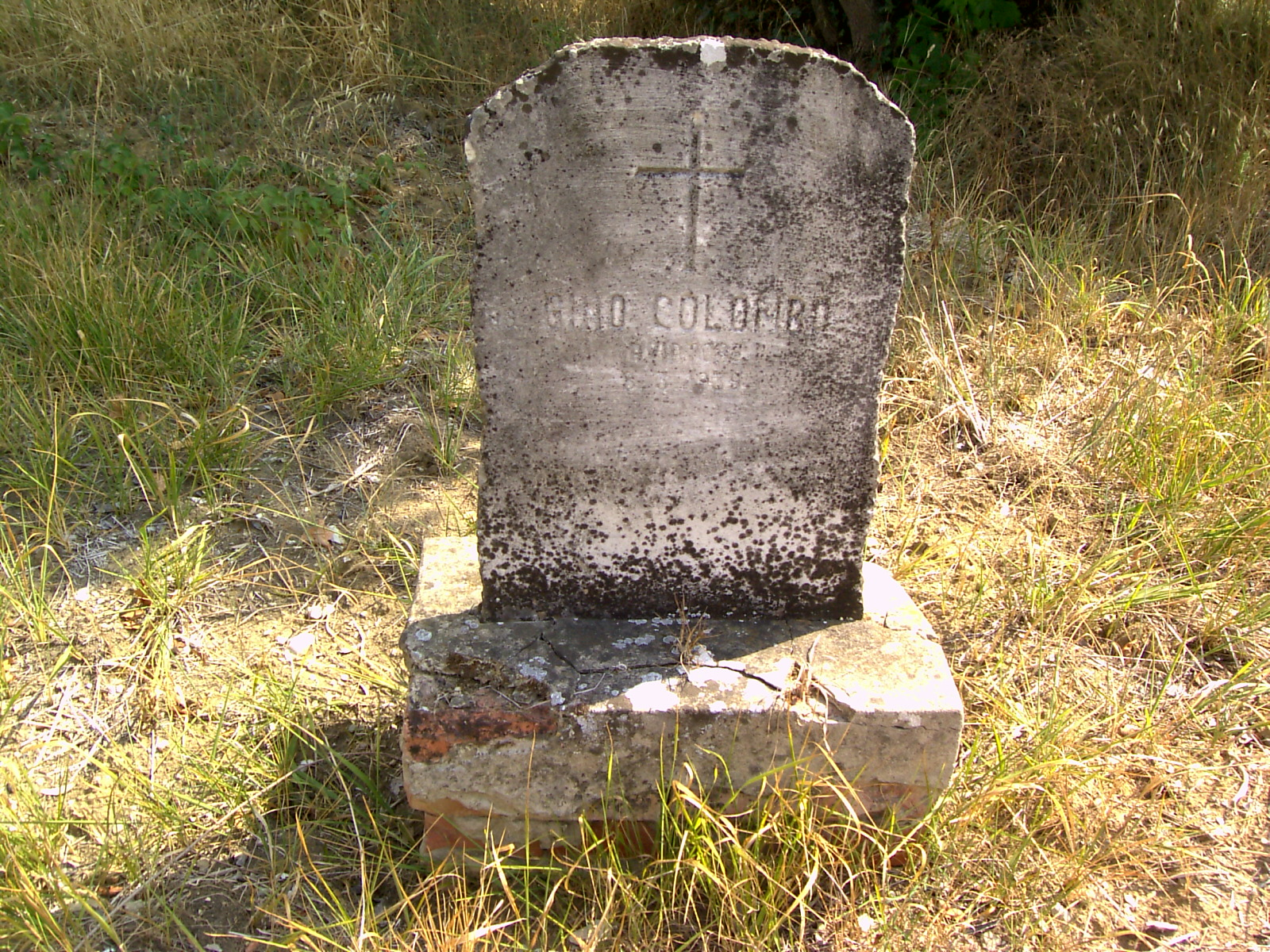 The memorial for pilot tester, eng. Antonio Colombo. Note that that he was referred as 'Gino'